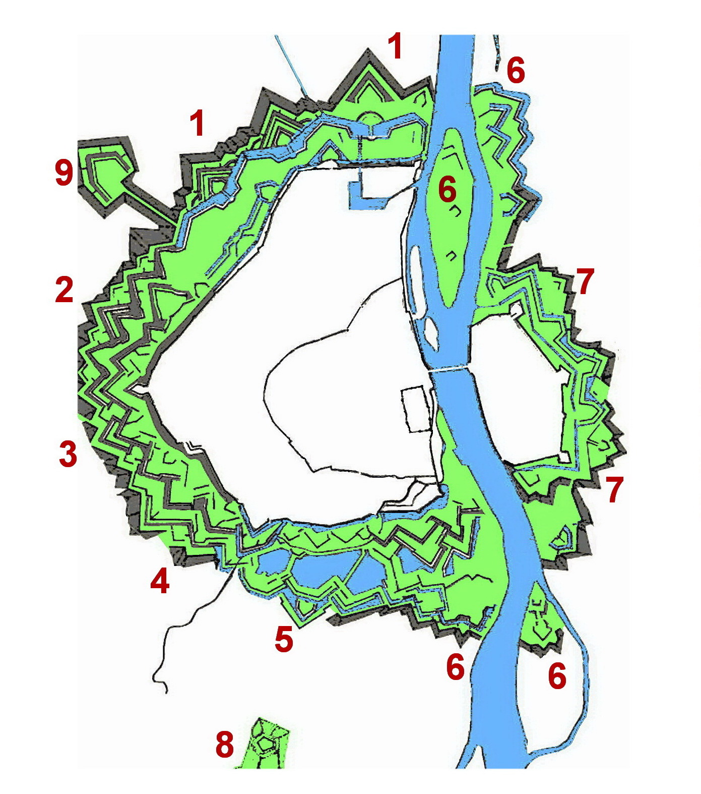 Stylized map of the fortified city of Maastricht, the Netherlands, showing the outer fortifications (16th-19th c).